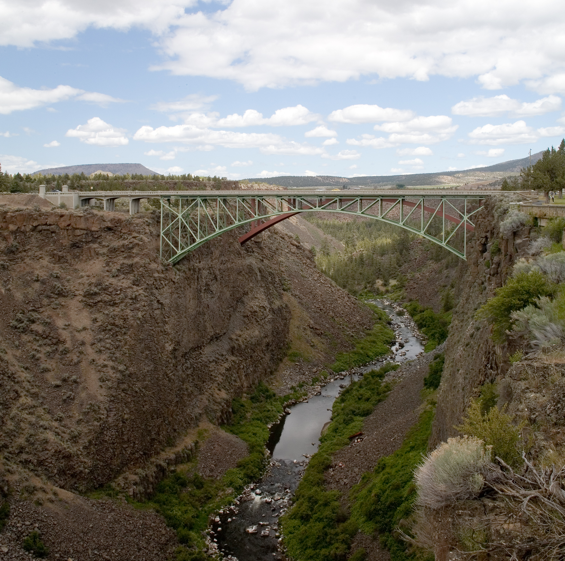 Crooked River High Bridge in Jefferson County, Oregon. Taken from the Peter Skene Ogden State Park.